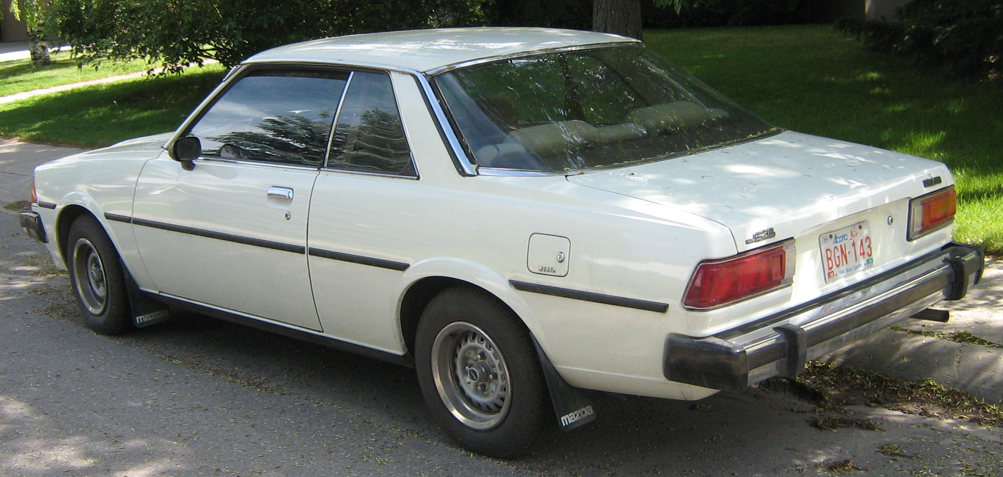 Mazda 626 coupe - last of the line for rear wheel drive 626s.